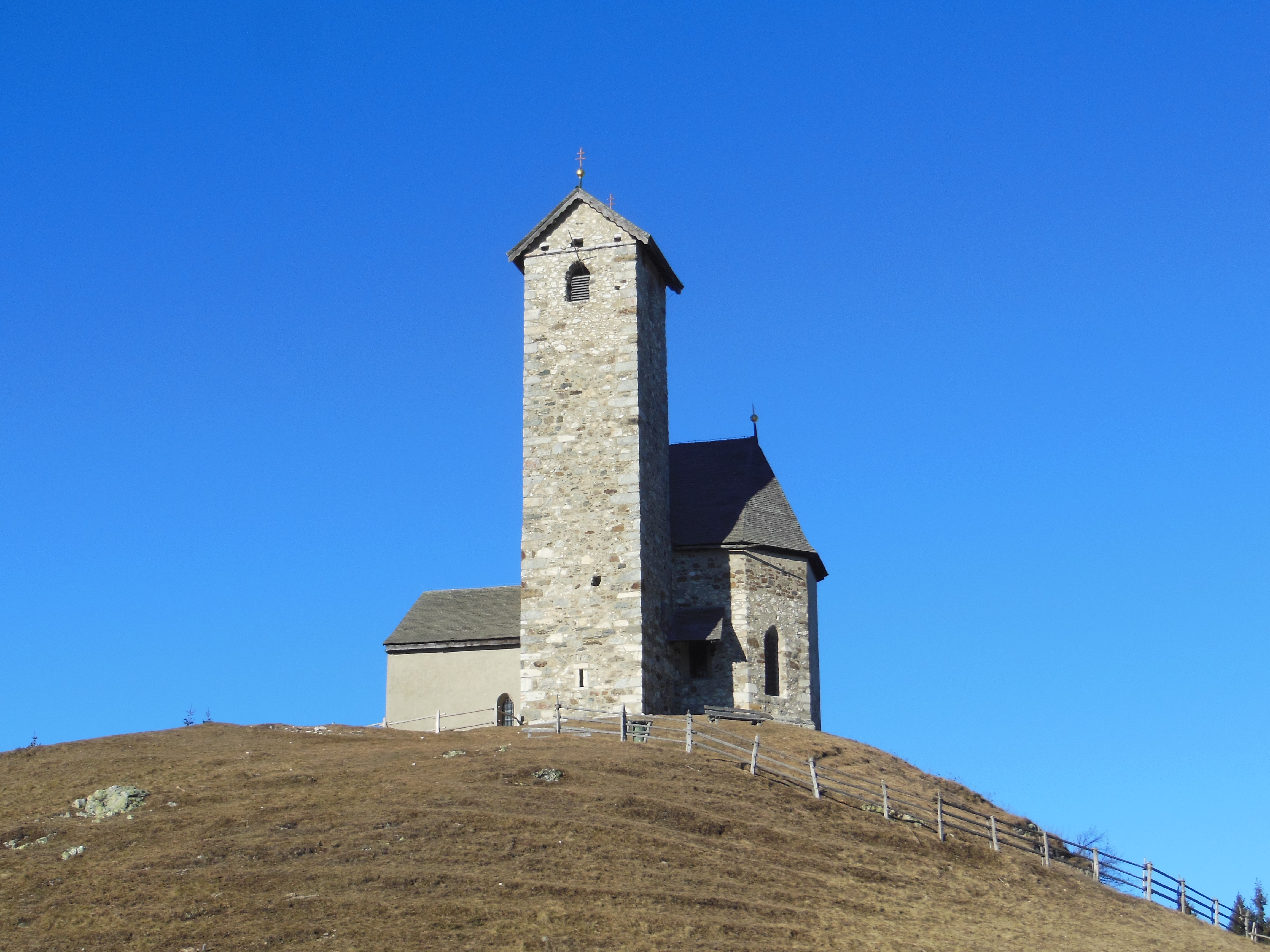 Church St. Vigil am Joch in South Tyrol. The church from South-East.